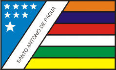 Bandeira do Municipio de Santo Antônio de Pádua